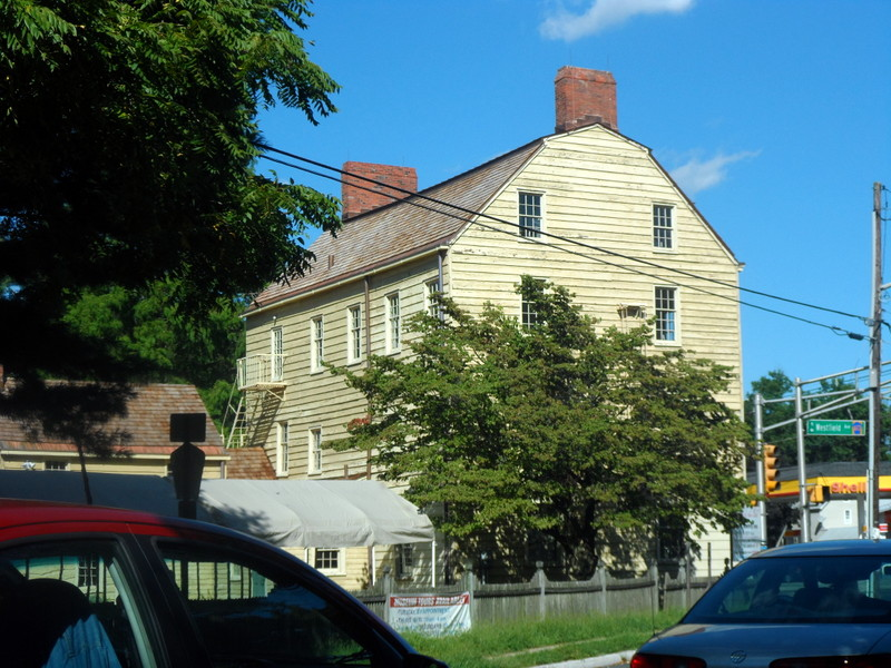 Merchants' and Drovers' Tavern